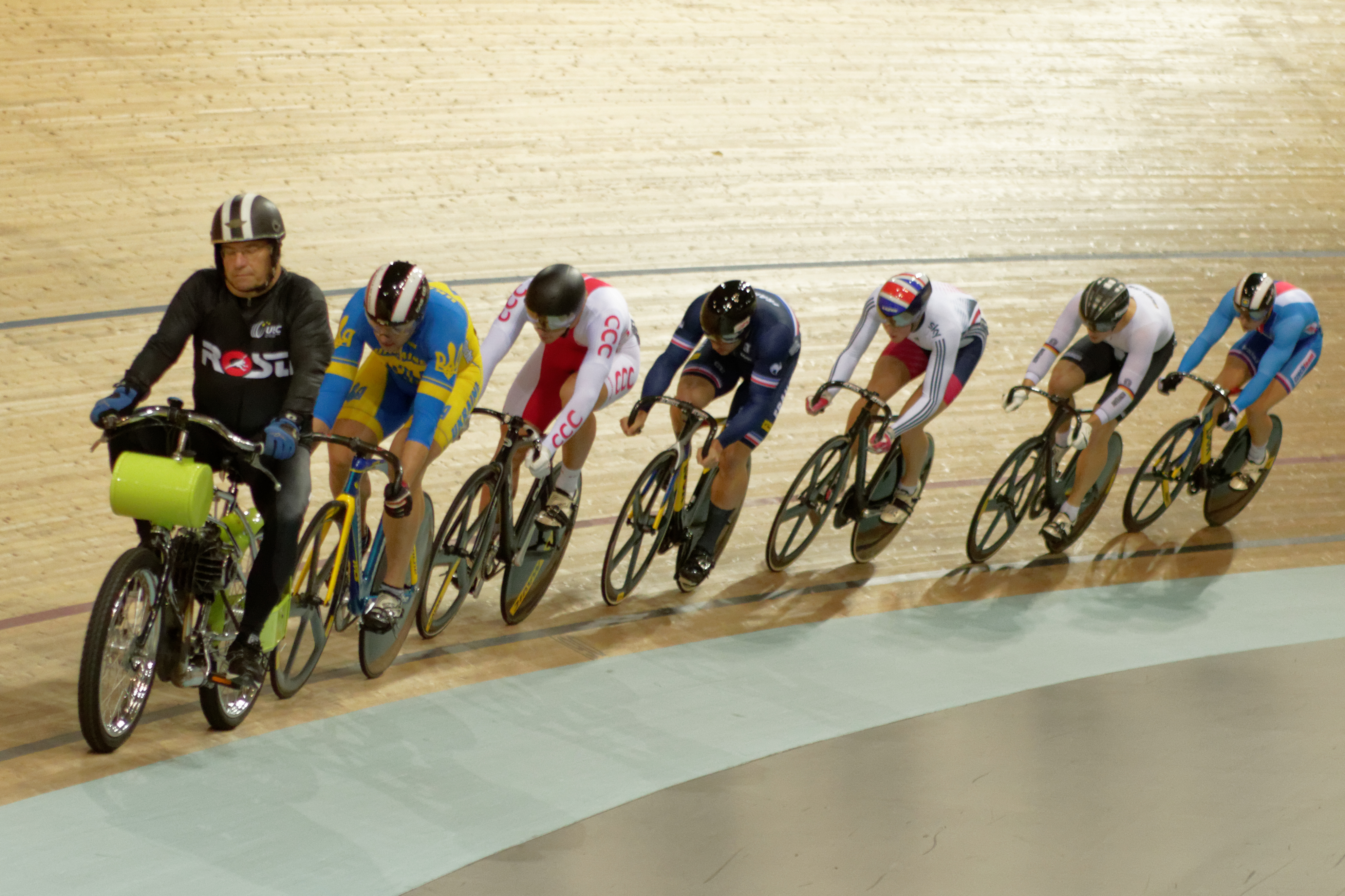 2016 UEC European Track Championships